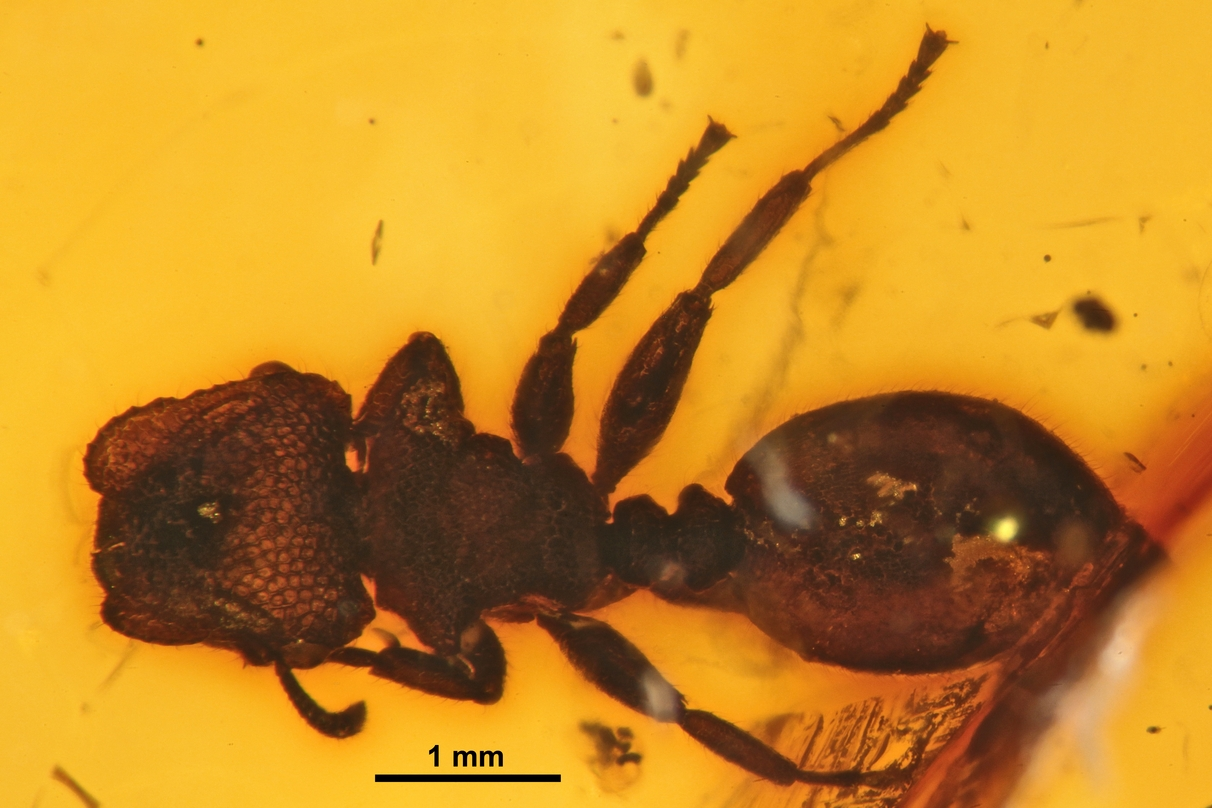 Dorsal view of the Cephalotes jansei holotype worker. Dominican amber, Burdigalian; Dominican Republic, Hispaniola Staatliches Museum fur Naturkunde, specimen SMNSDO5688